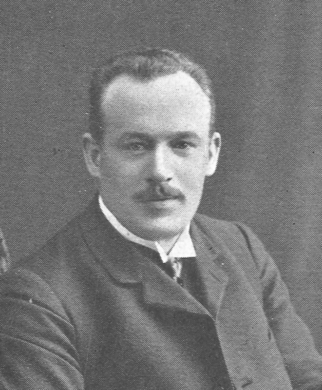 Canonized as a new martyr in 1992 at the Council of Bishops of the Russian Orthodox Church.